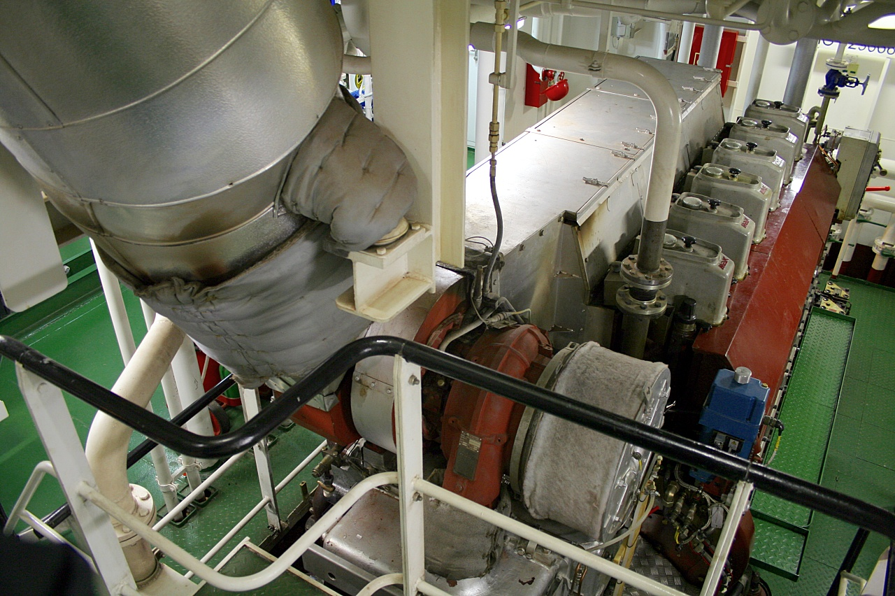 A medium speed six-cylinder MaK diesel engine, with the also medium sized turbocharger and exhaust in the front.